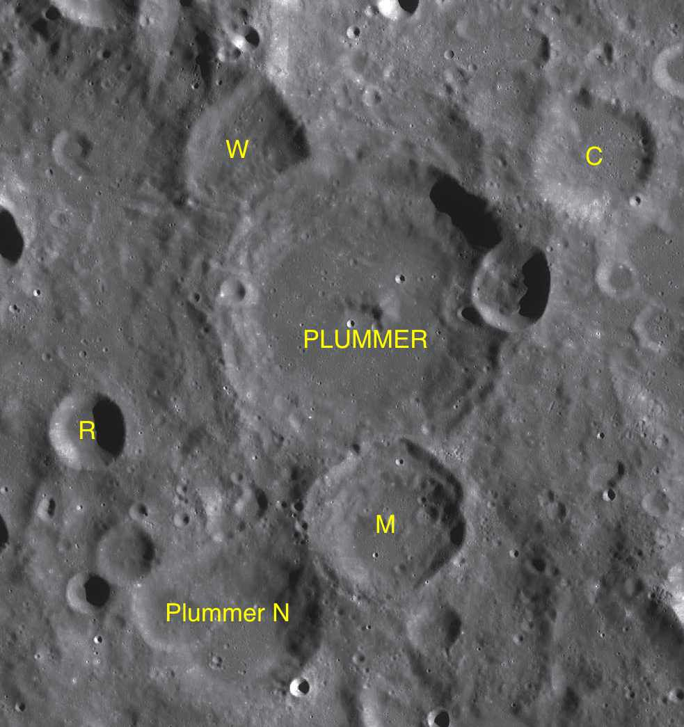 Part of the chart LAC-105 used for the presentation